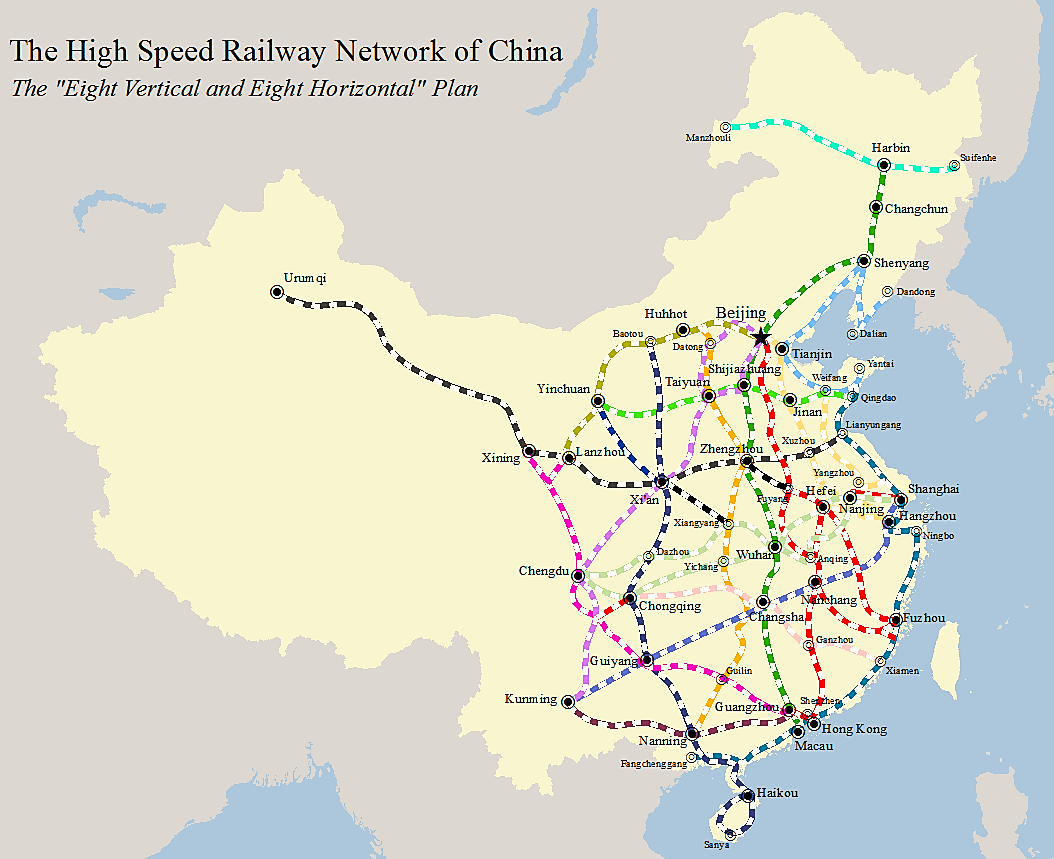 Map of the high speed railway network in China, the 8 vertical and 8 horizontal plan.